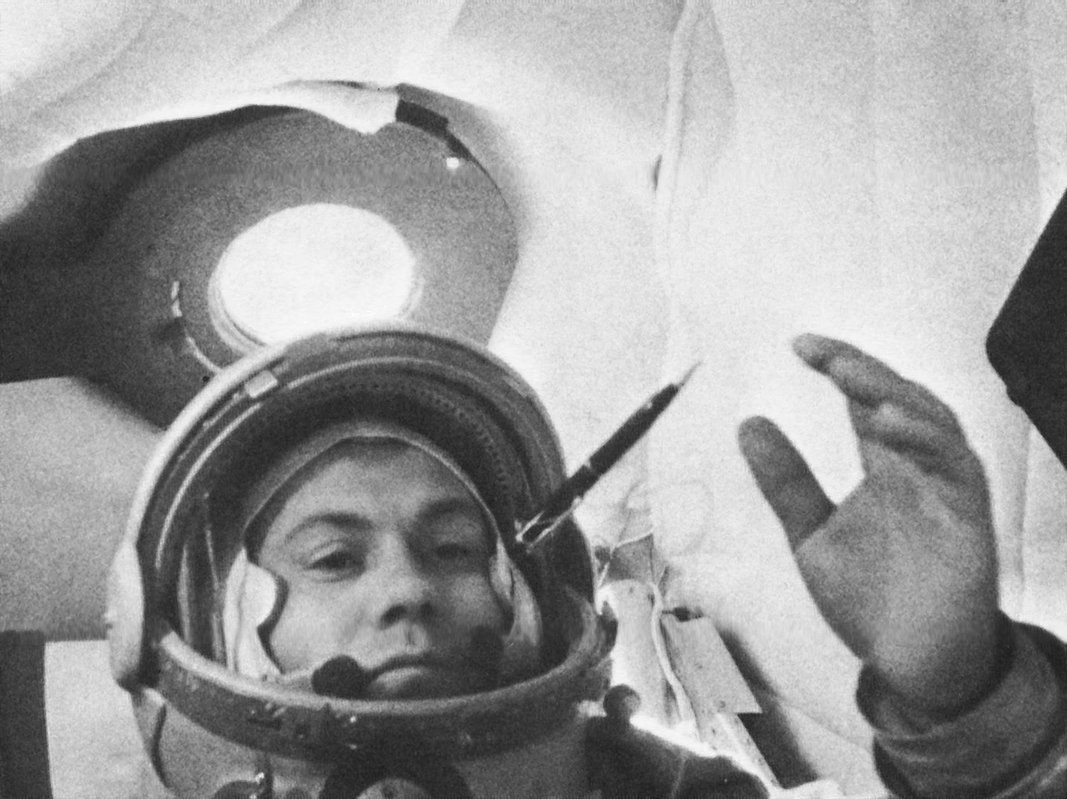 Cosmonaut Pavel Popovich, on Vostok 4.